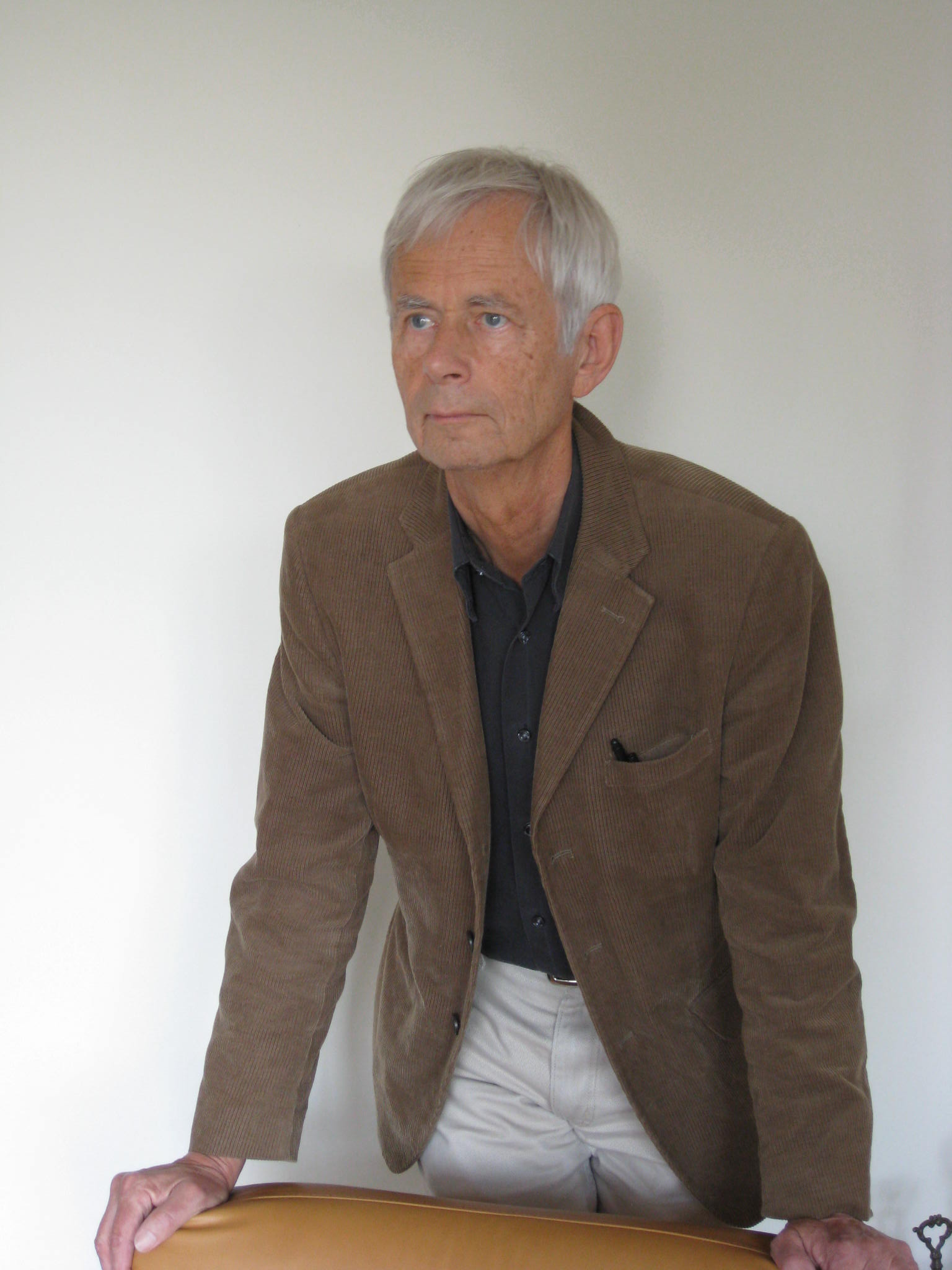 Eike Jessen 2008